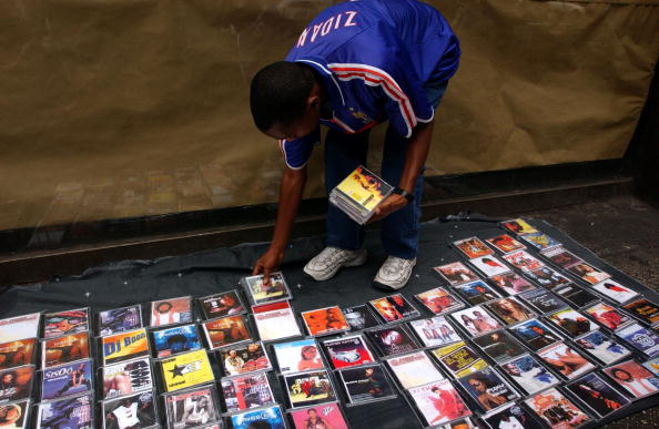 A street vendor packing up his display of counterfeit cds after being photographed. he packs up his cds, but everytime, there could come a police